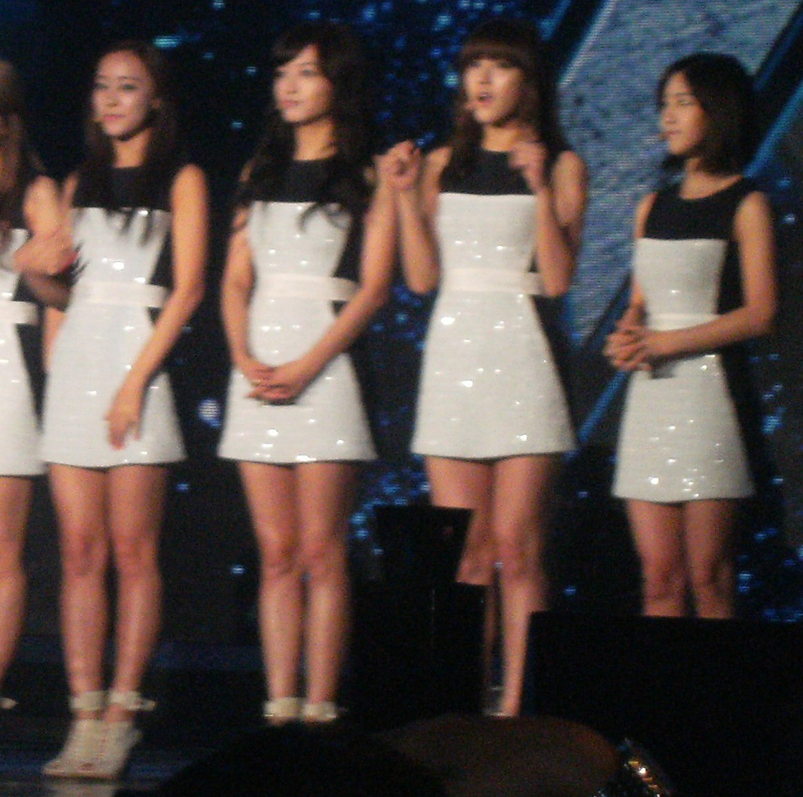 Group rainbow in gsl super tournament final